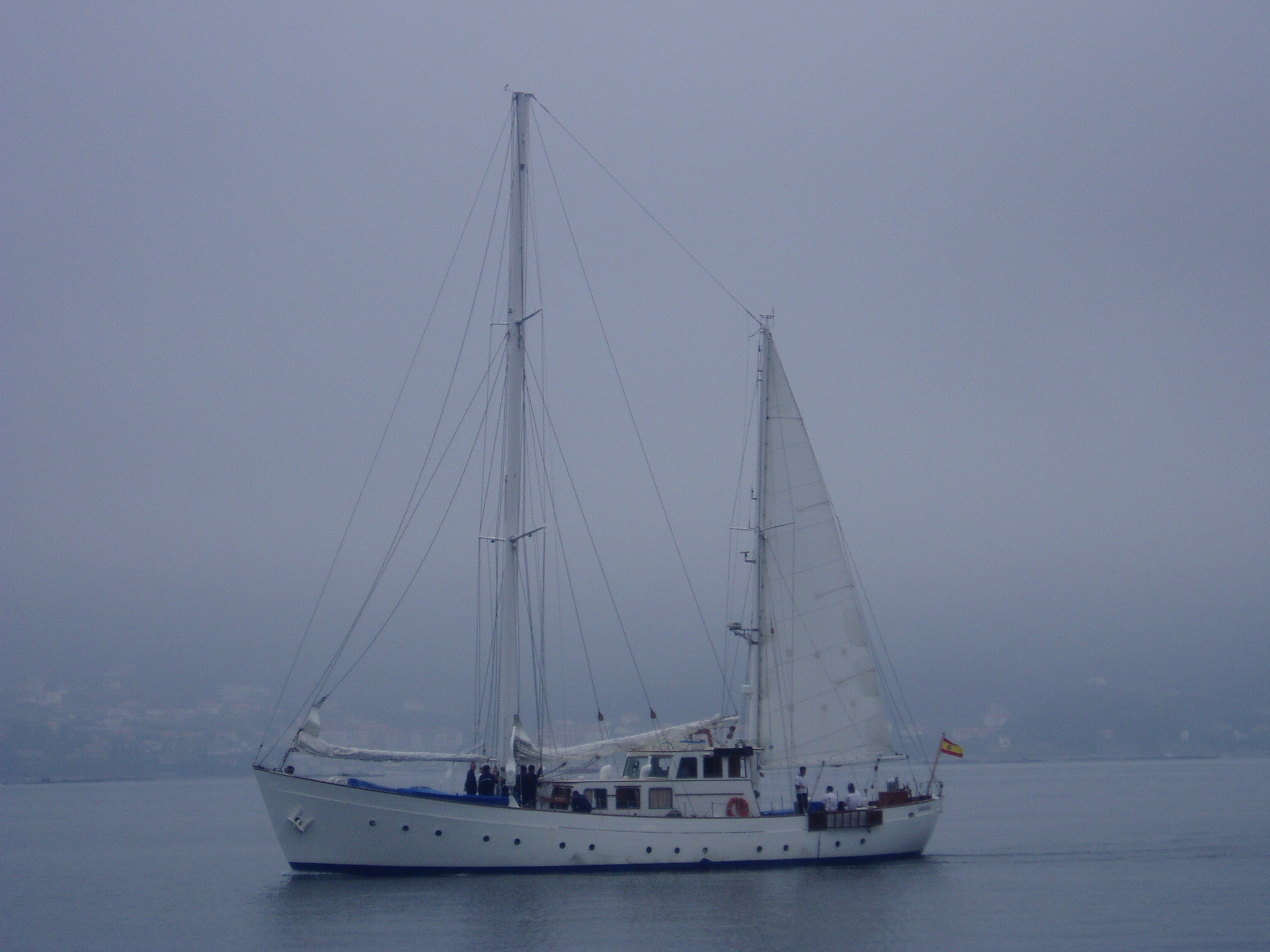 Training ship of the Spanish navy Giralda (A-76), built in 1958, was donated in 1993 by Juan Carlos I to the Navy after the death of the former owner, his father, Juan de Borbon y Battenberg